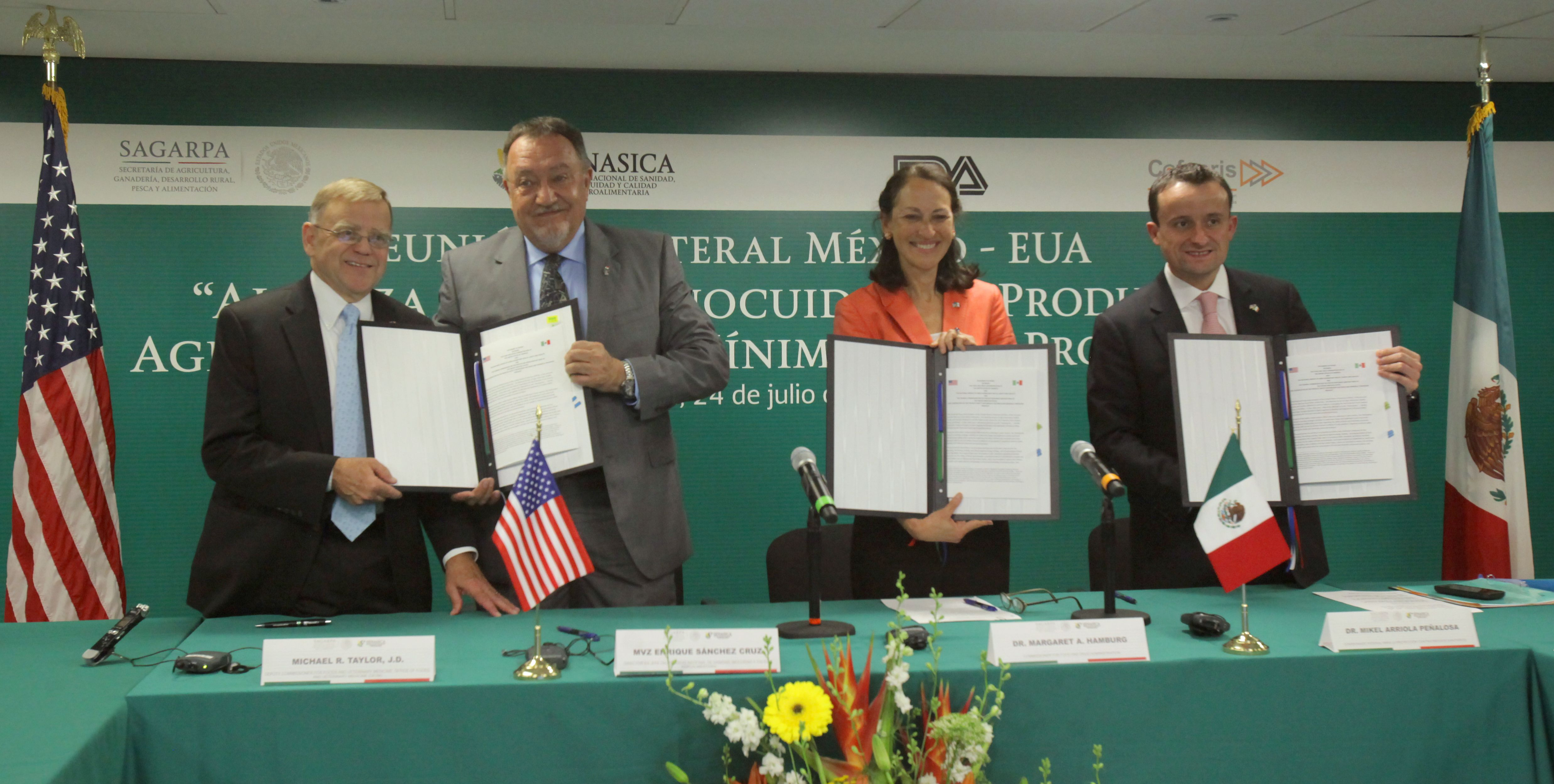 July 24, 2014; Left to right: Michael R. Taylor, FDA Deputy Commissioner for Foods and Veterinary Medicine; Enrique Sánchez Cruz, Executive Director, SENASICA, Margaret A. Hamburg, M.D., Commissioner of the U.S. Food and Drug Administration, and Mikel Arriola Peñalosa, Commissioner, COFEPRIS – signing a statement of intent to establish a new produce safety partnership with Mexico. To learn more, read this FDA Voice blog post. This photo is free of all copyright restrictions and available for use and redistribution without permission. Credit to the U.S. Food and Drug Administration is appreciated but not required. For more privacy and use information visit